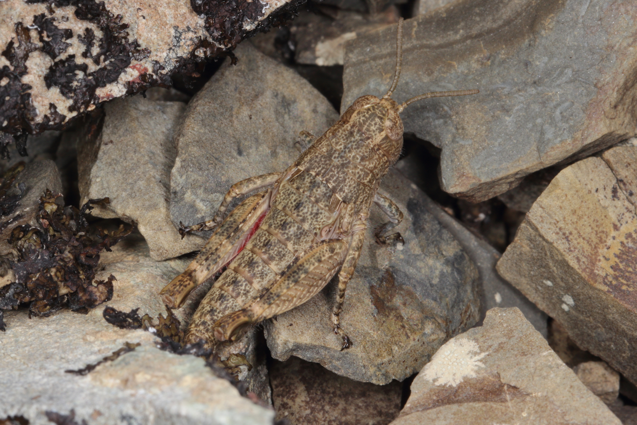 Brachaspis nivalis